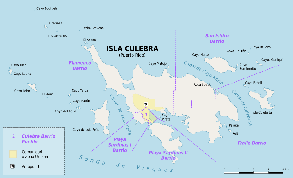 Districts (barrios) of Isla Culebra, Puerto Rico (ES)